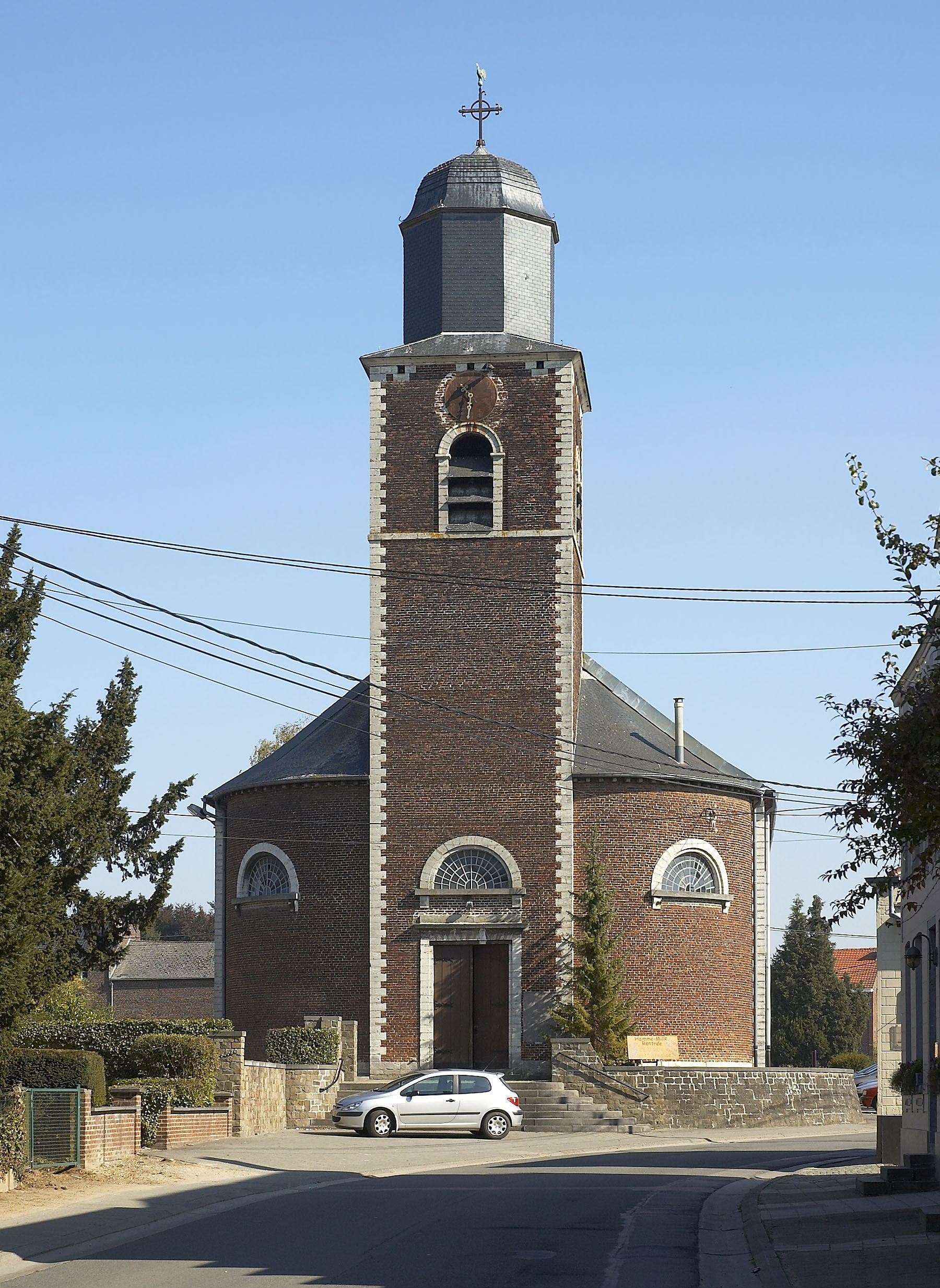 the St. Amand church in Hamme-Mille, Belgium